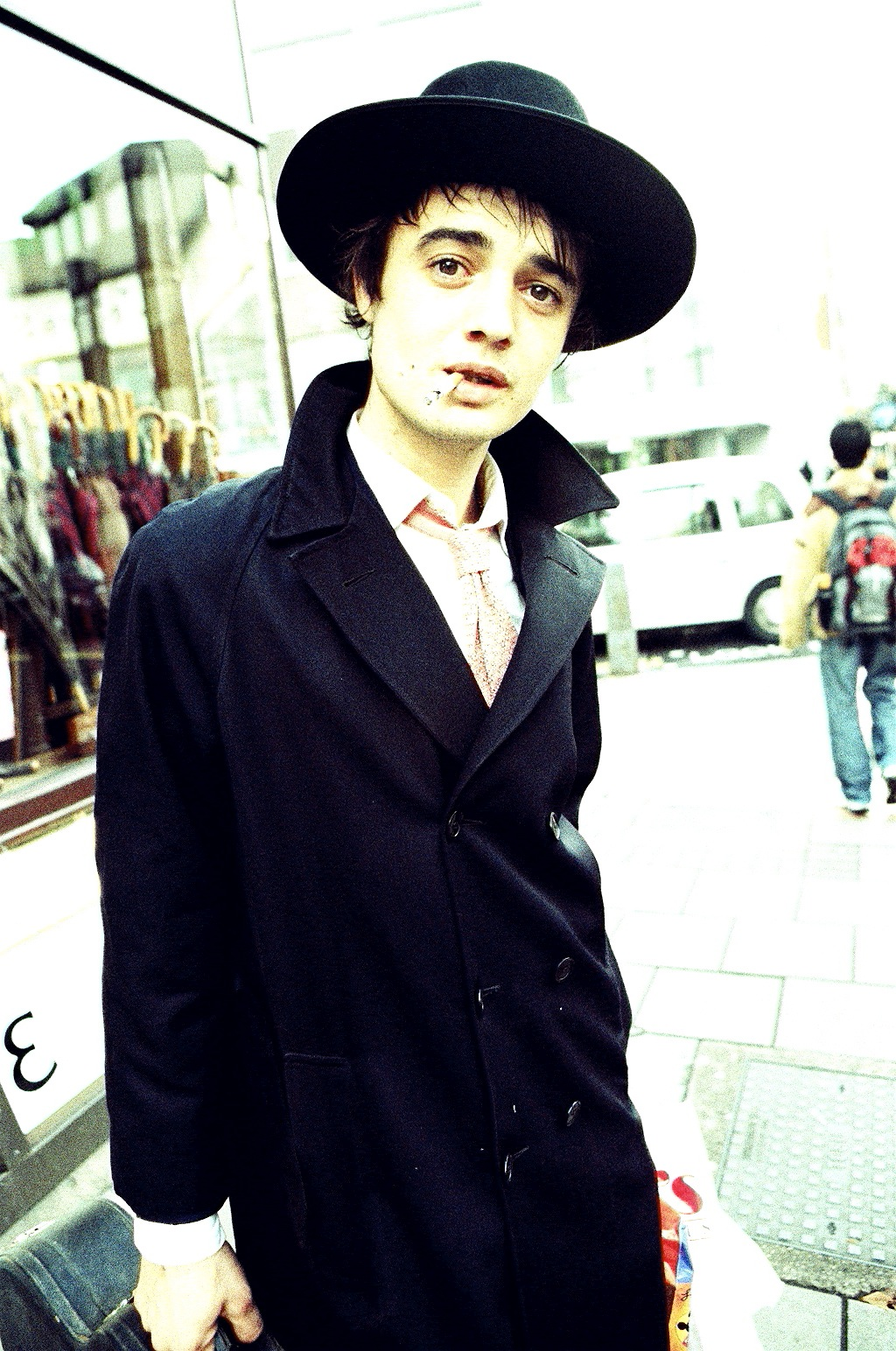 Pete Doherty in 2005.